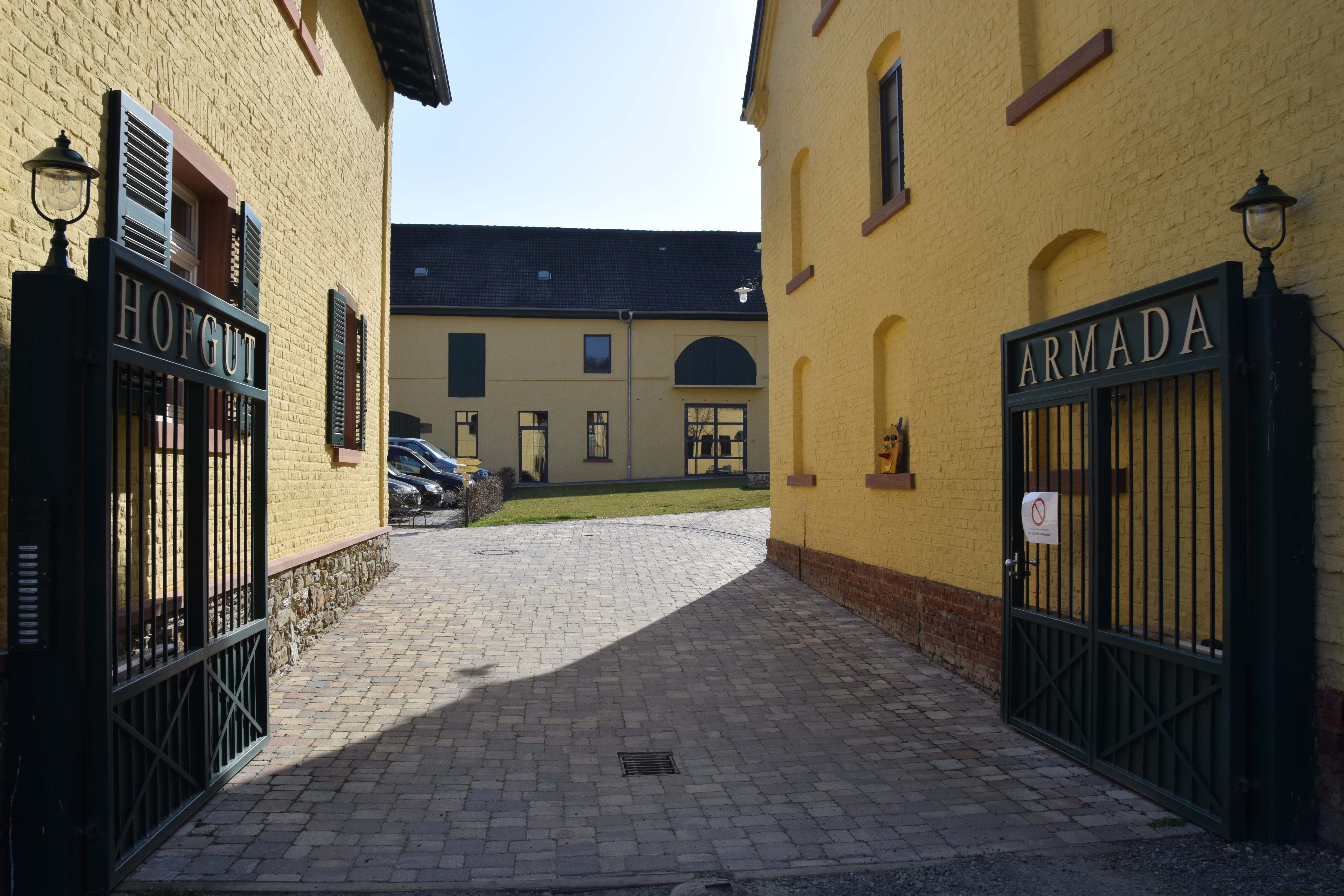 Wiesbaden Frauenstein Hof Armada Einfahrt